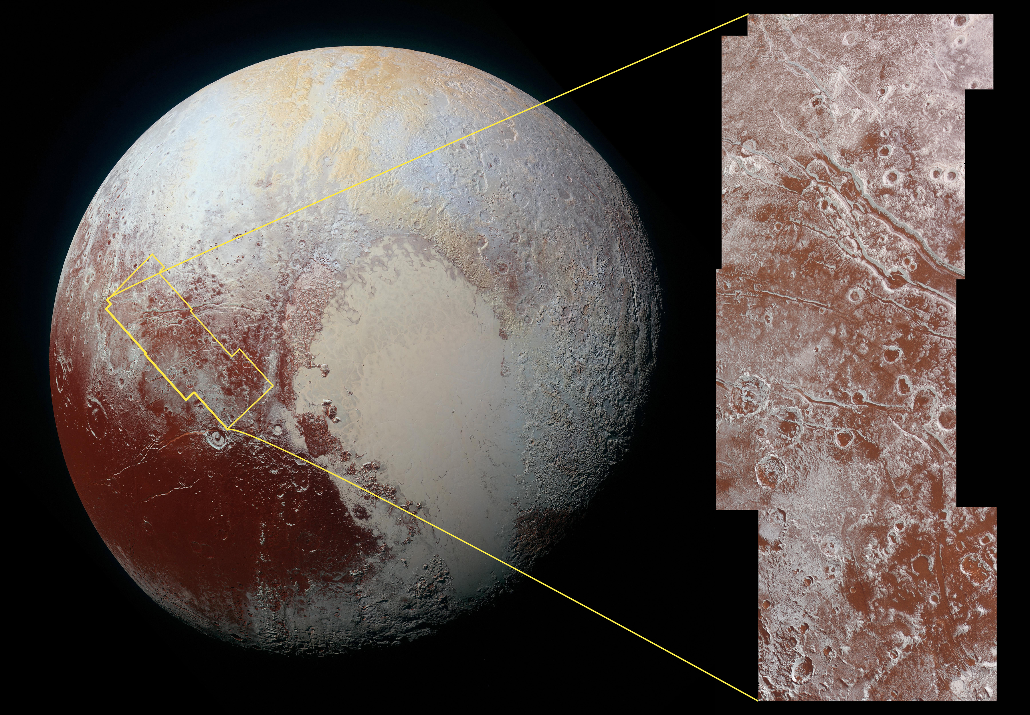 Viking Terra is located on Pluto. This mosaic of Viking Terra taken from New Horizons in enhanced color.